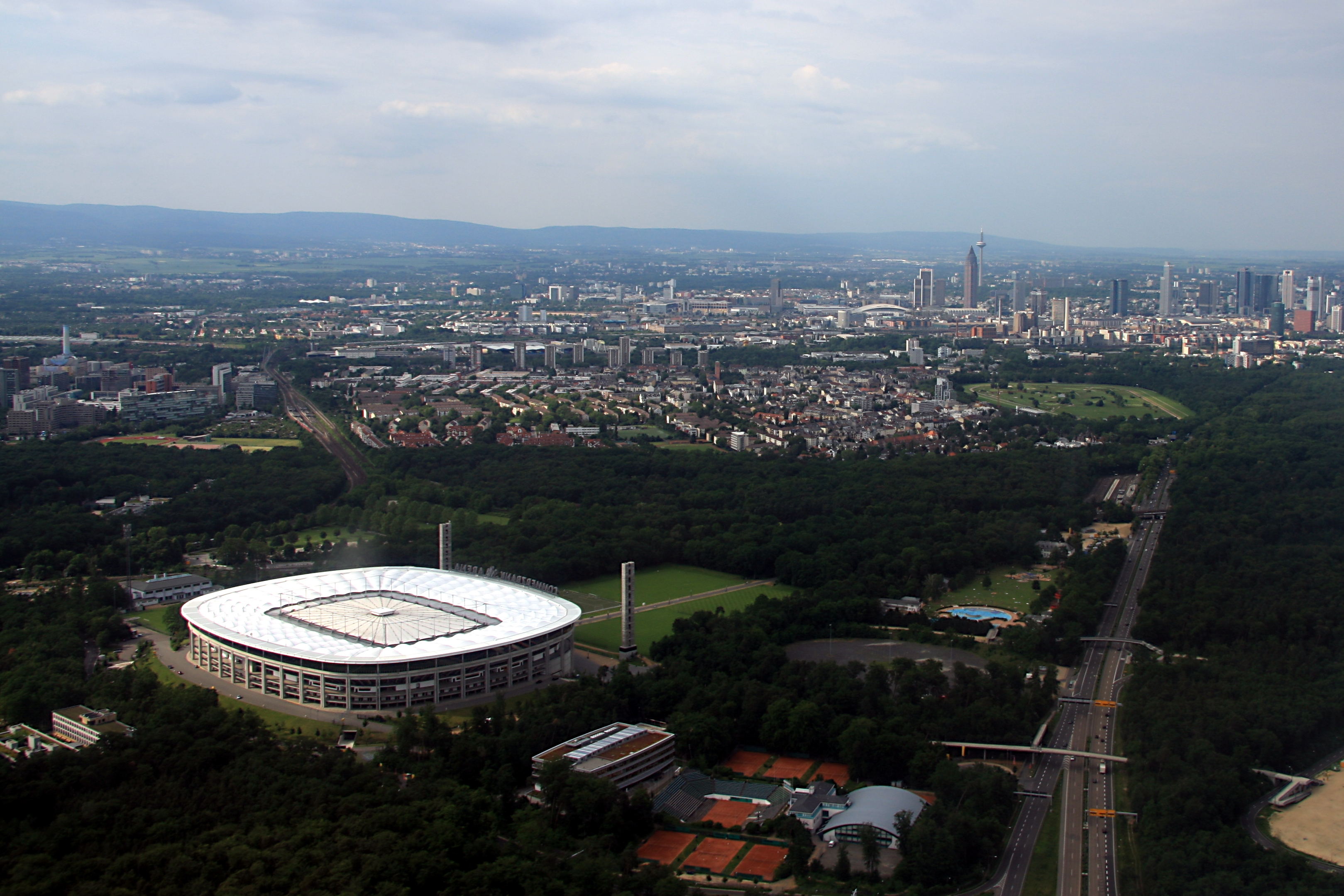 Approaching Frankfurt airport